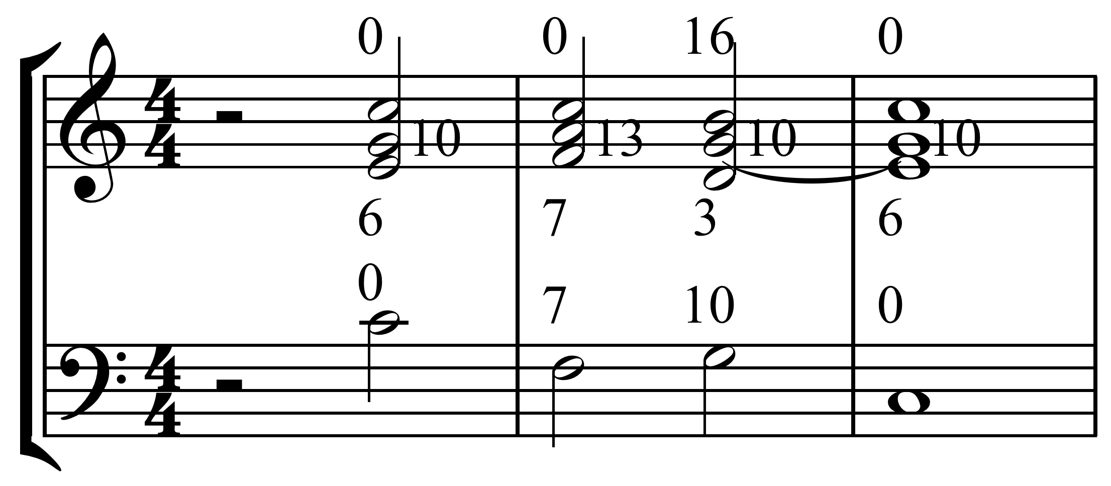 Simple I-IV-V-I isomorphic 17-TET: I-IV-V-I chord progression in 17 tone equal temperament.